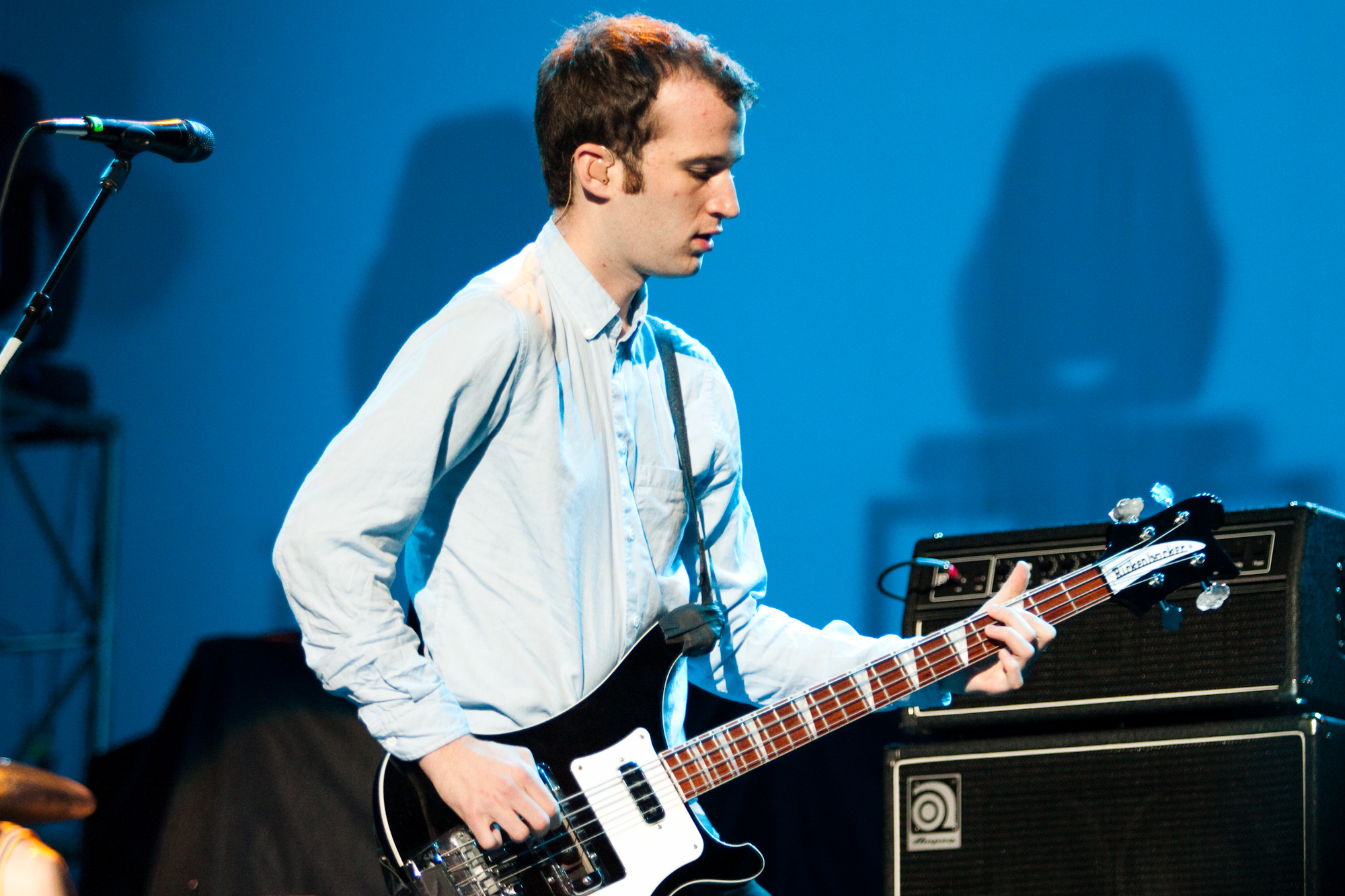 I could have made an entire album with Chris Baio in front of backdrops of every color of the rainbow.